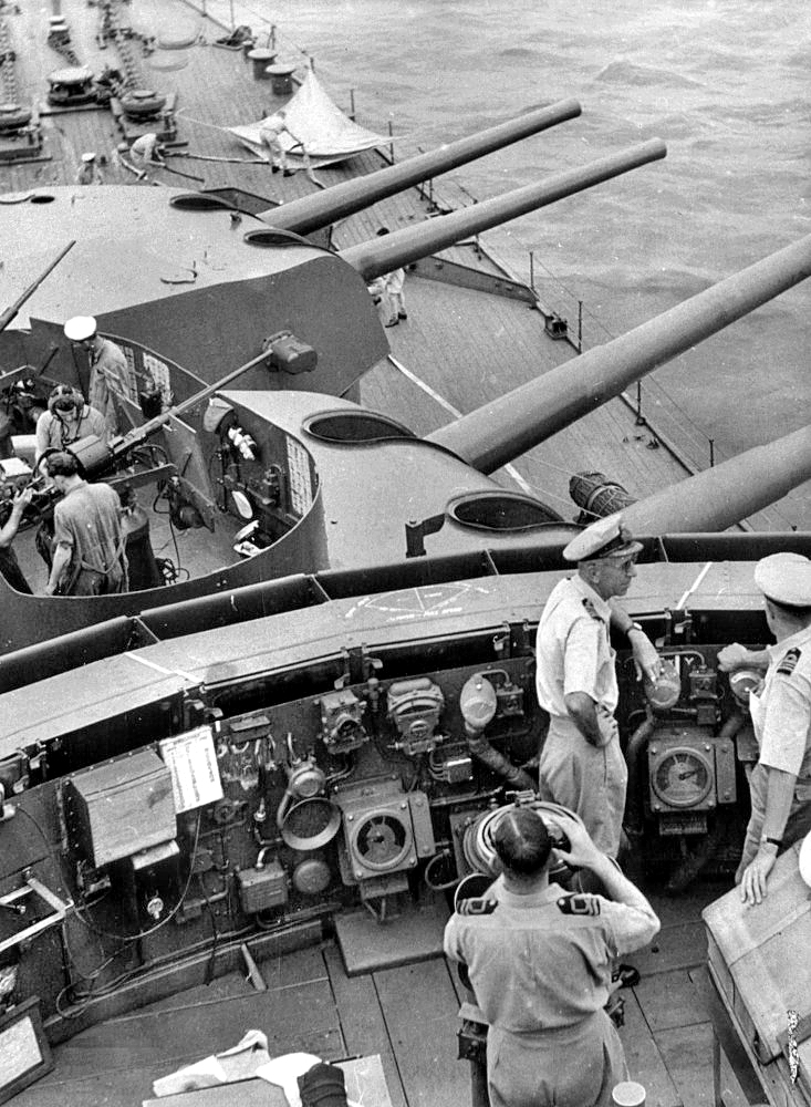 View of the bridge and forward 8-inch gun turrets of heavy cruiser HMAS Australia, 4 September 1944. The officer facing to the right is Captain Emile Dechaineux, commander of the Australia, who was killed during the kamikaze attack of 21 October 1944.